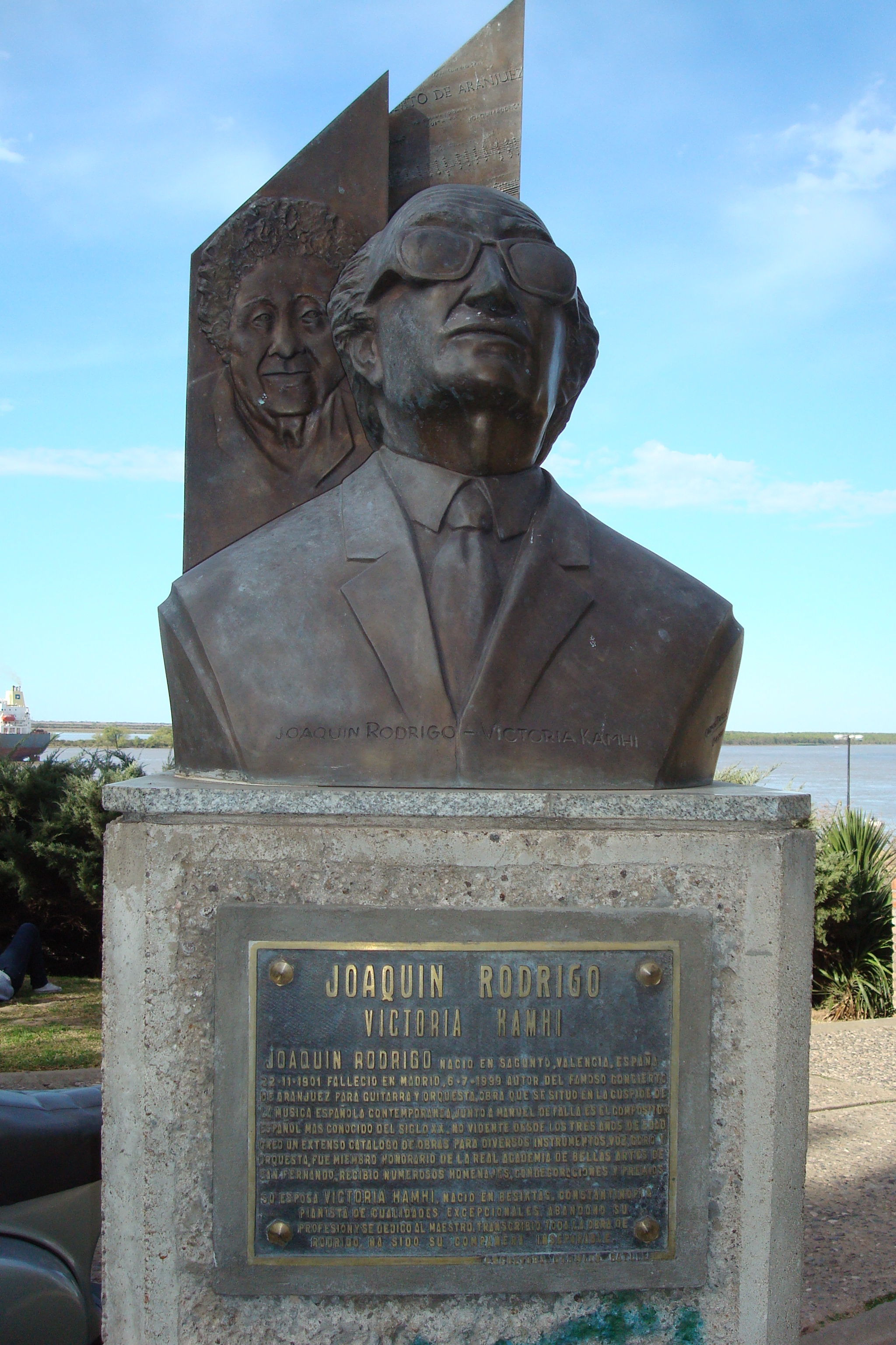 Bust of the Spanish composer Joaquín Rodrigo, with an image of his wife, the pianist Victoria Kamhi, in the background. España Park, Rosario, Santa Fe Province, Argentina.